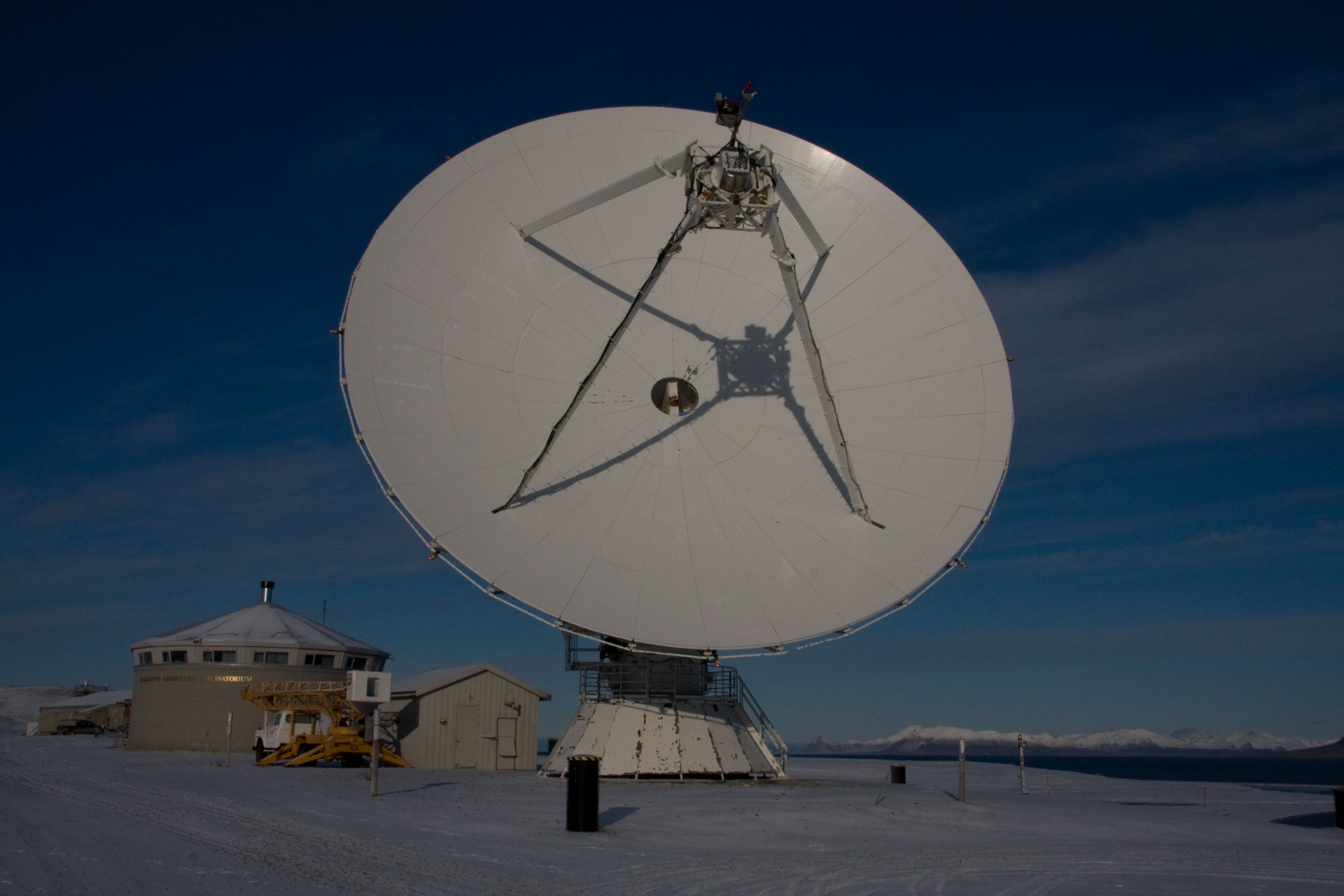 20 meter VLBI radio telescope Ny-Ålesund, Svalbard, Norway